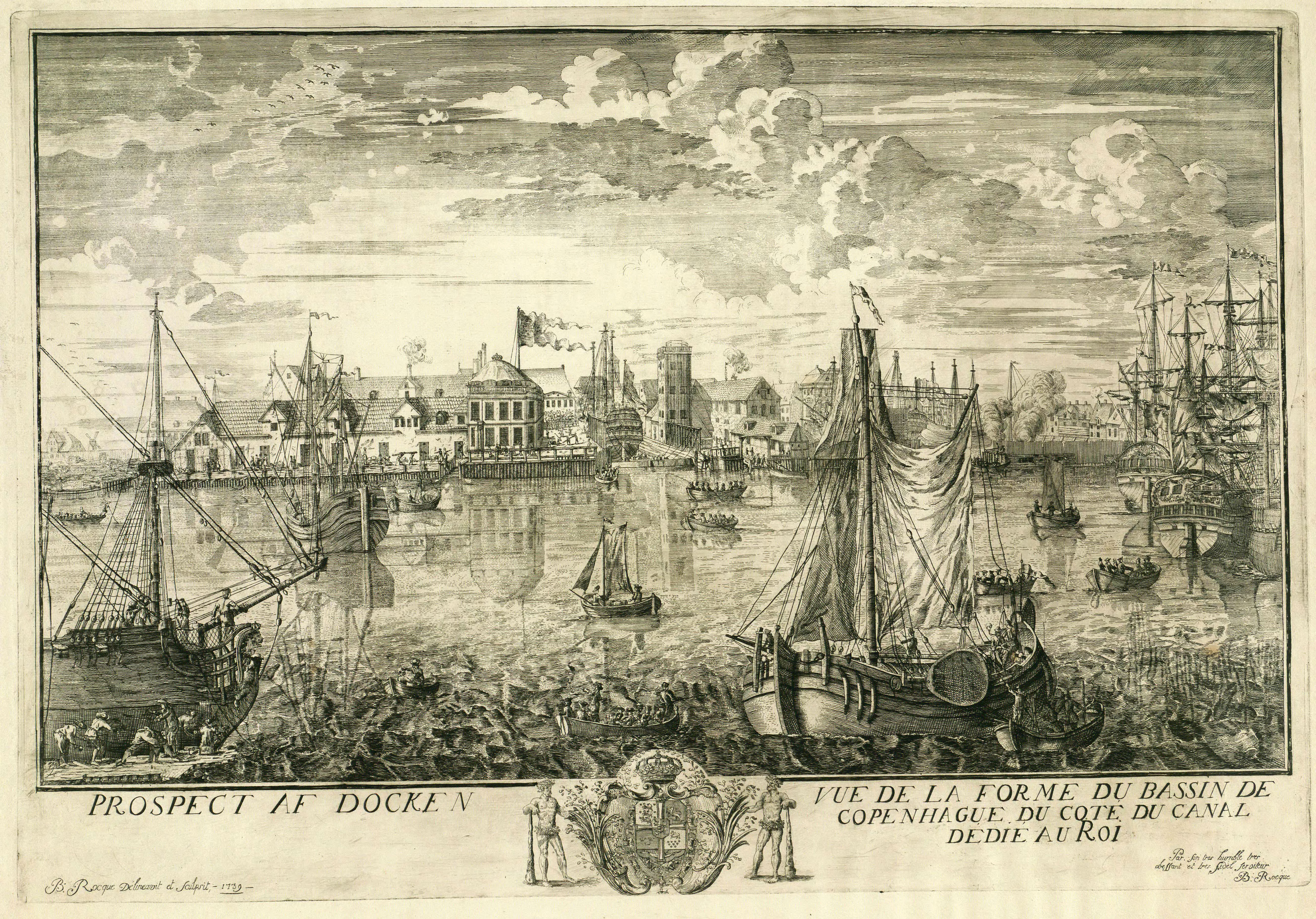 Inauguration of the Old Dock in Copenhagen, 1739.